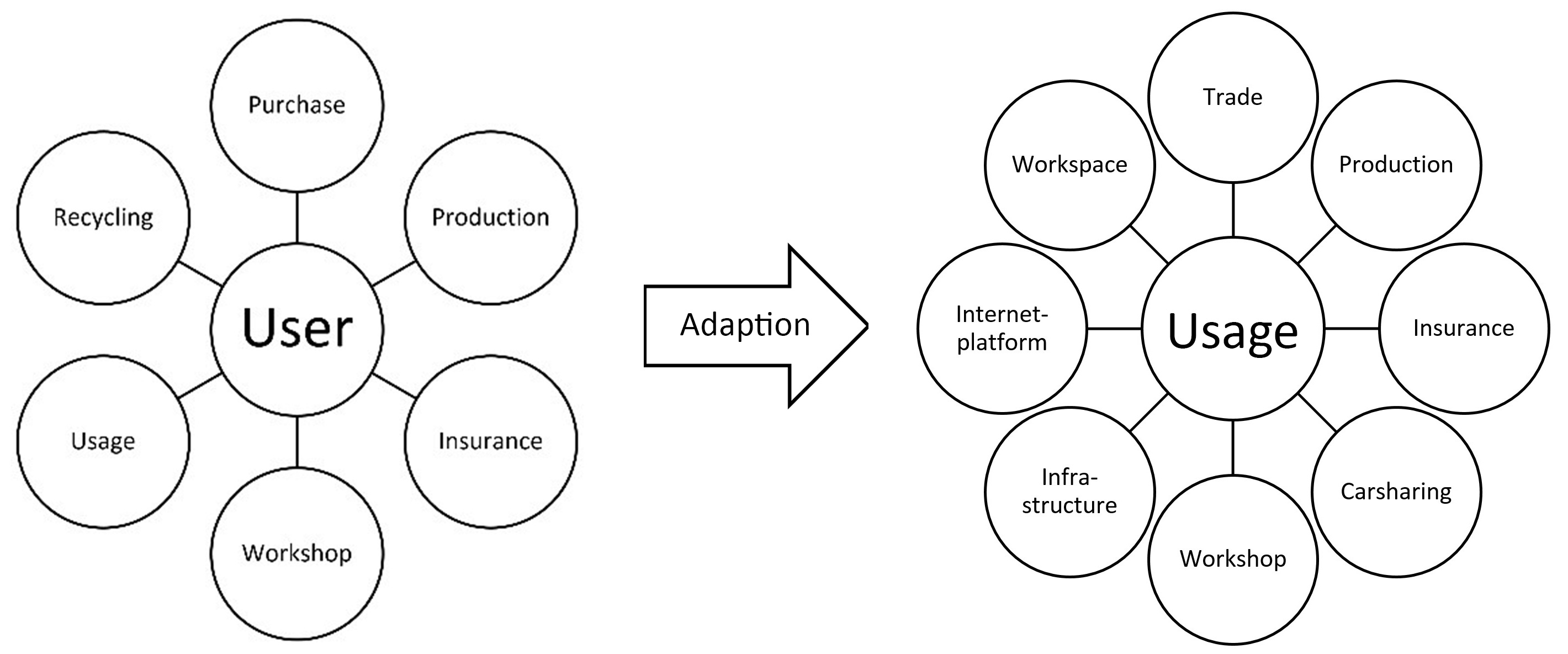 Development of phases in the Usage Model